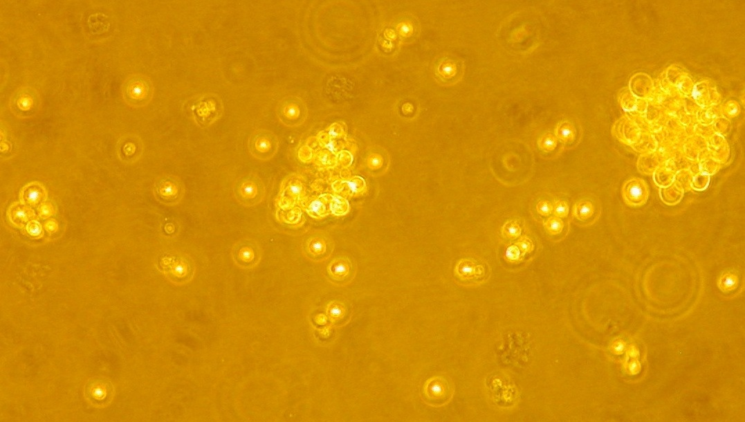 Magnified pictures of Raji cell lines during early cultural stage. The cell grew as single, doublets, or form aggregation of cells.